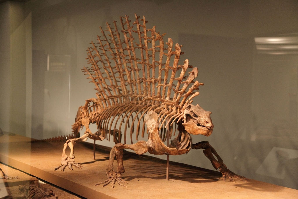 Edaphosaurus pogonias skeleton mounted at the Field Museum.